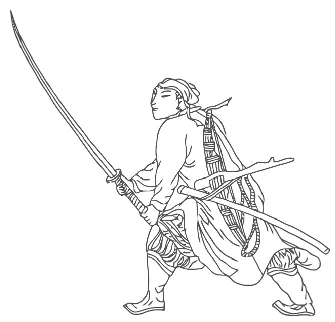 long sabre